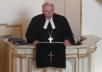 bishop Michał Warczyński preaches in The Saviour Church in Sopot, POLAND